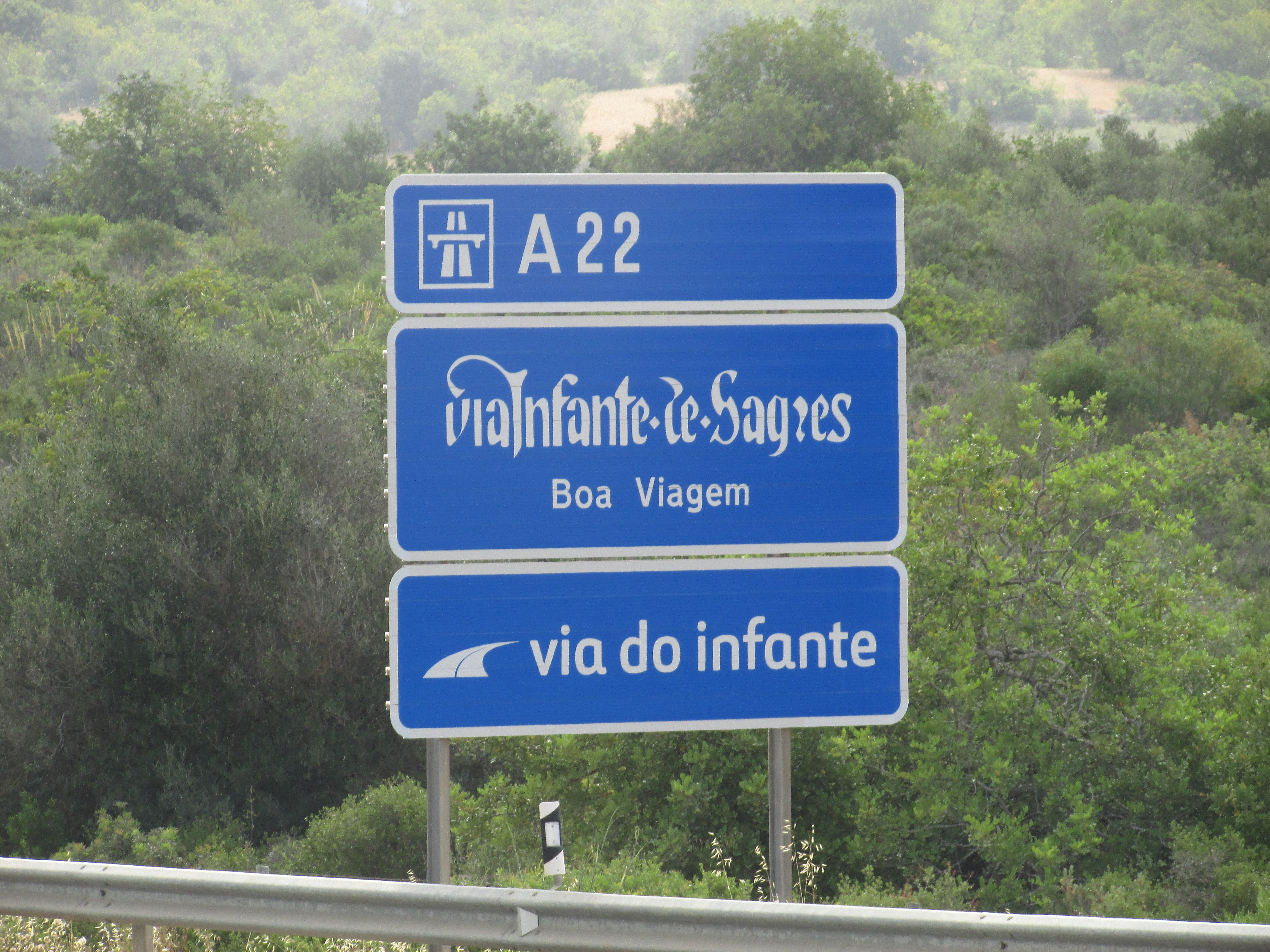 A motorway designation sign on the east bound carriageway of the A22 motorway near the village of Paderne north of the city ofAlbufeira, Algarve, Portugal.